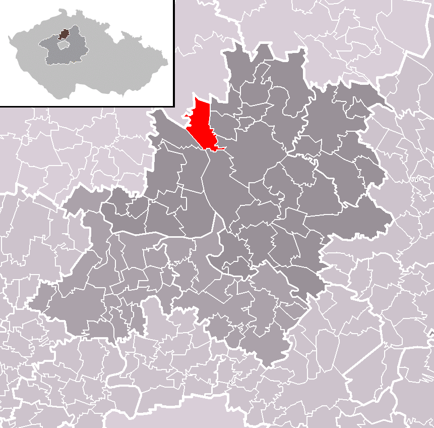 Location of Liběchov town within Mělník District and administrative area of Mělník as a Municipality with Extended Competence.